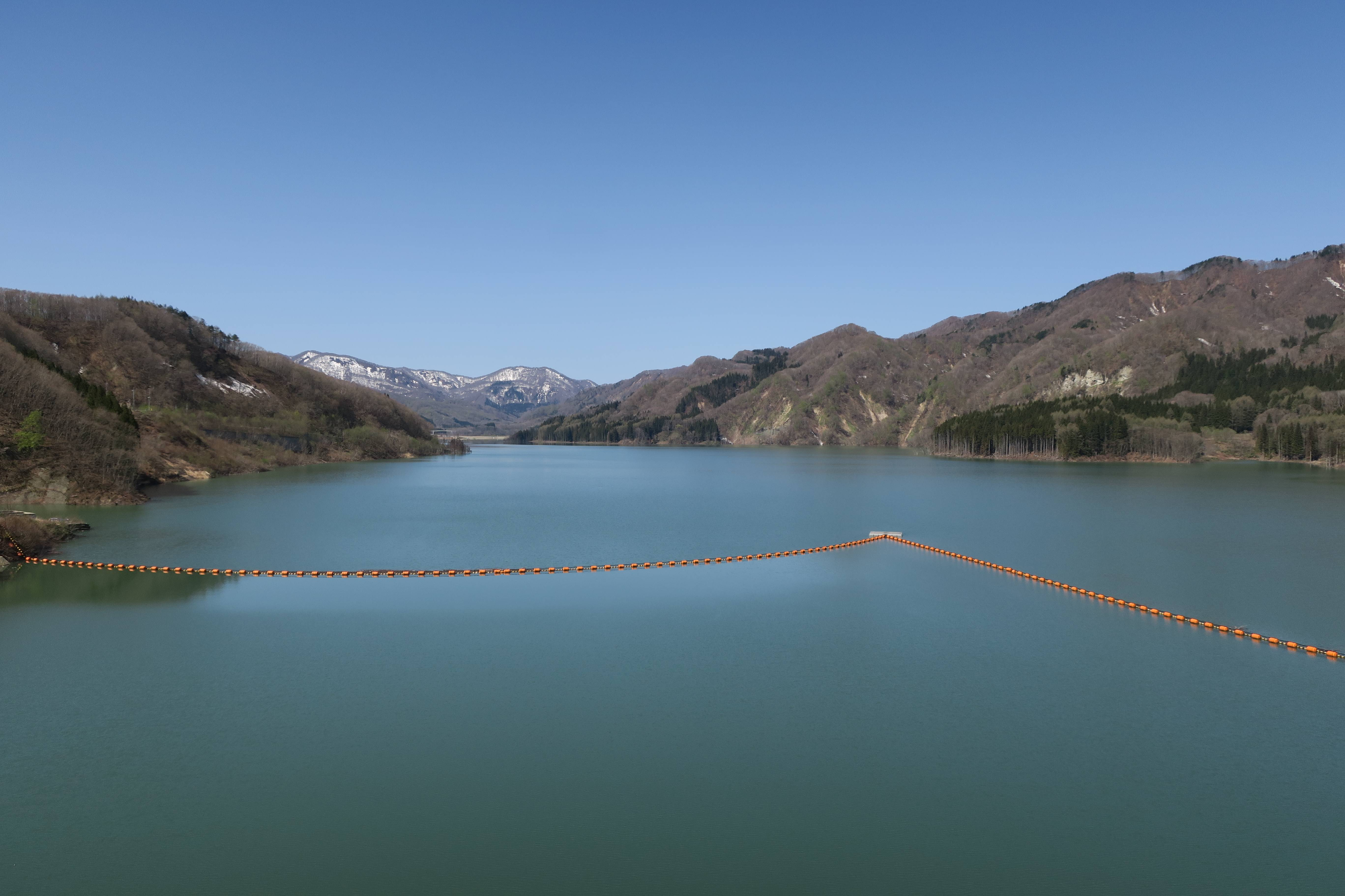 Tsugaru Dam (Nishimeya, Aomori).